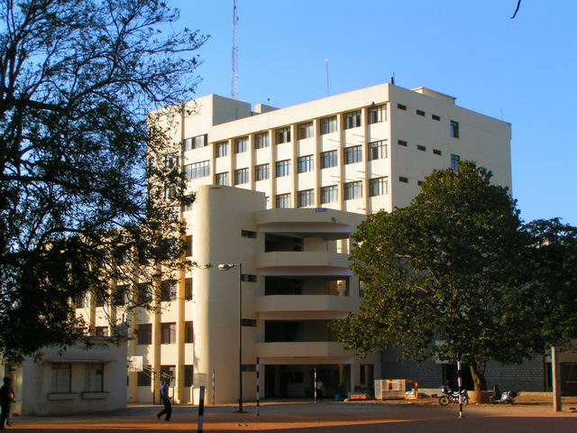 This is the picture of BMS PG Block and MCA Building as seen from Indoor Stadium